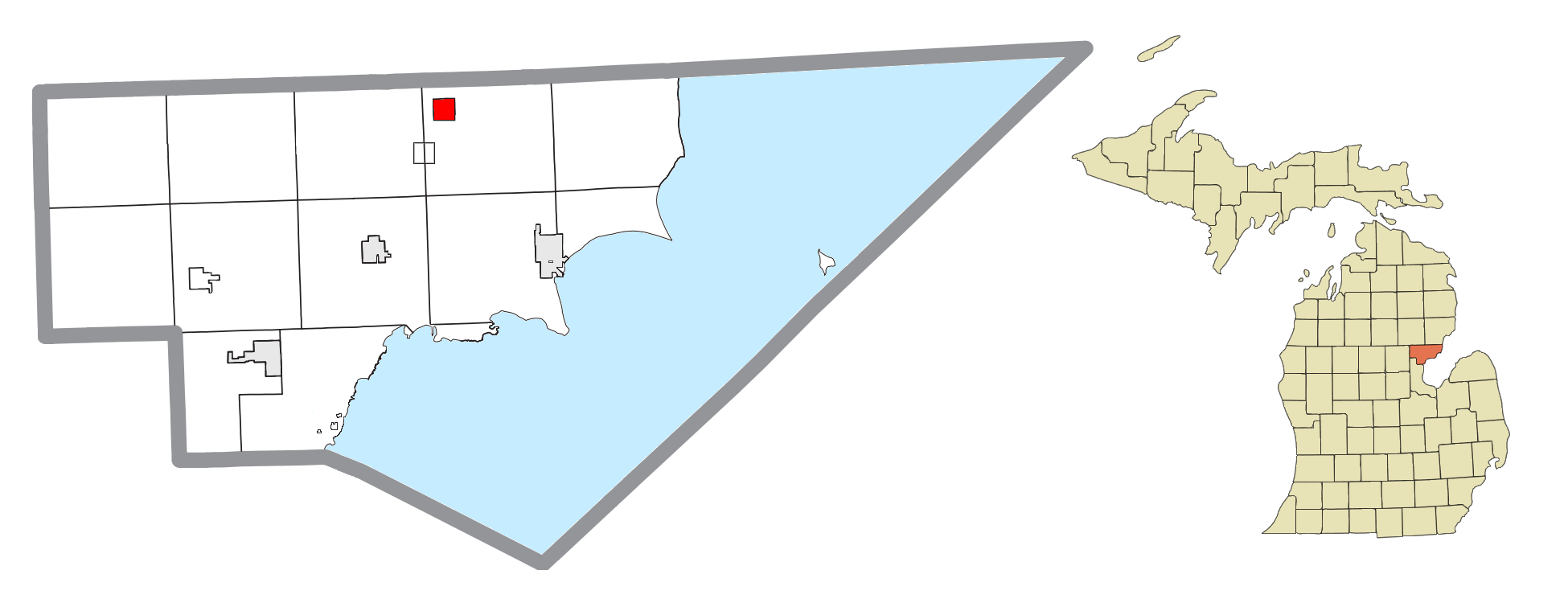 Turner, MI